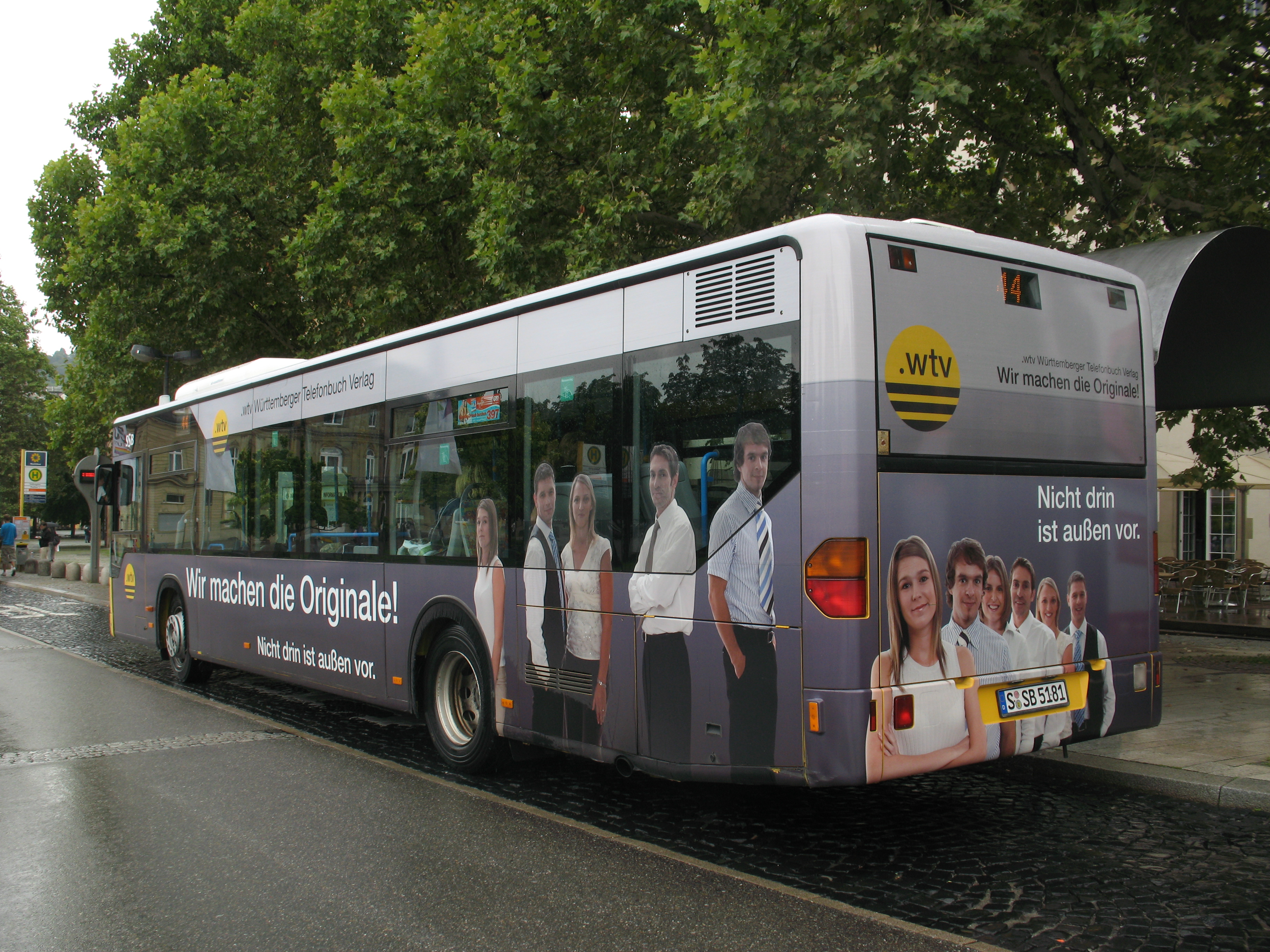 Mercedes-Benz Citaro bus (reg. S-SB 5181) of VVS company operates on VVS Stuttgart transportation system.